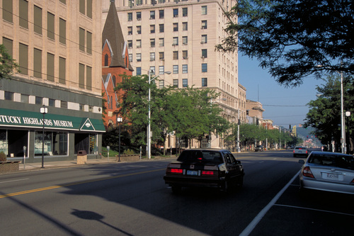 Winchester Avenue (U.S. 23 Business) in Ashland, Kentucky.